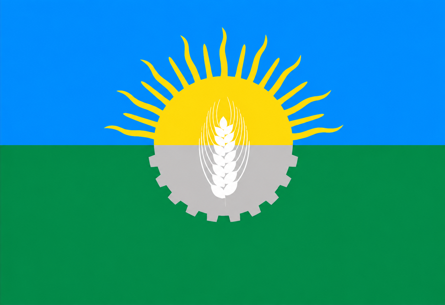 Bandera de la municipalidad de Pilar, Santa Fe, Argentina.